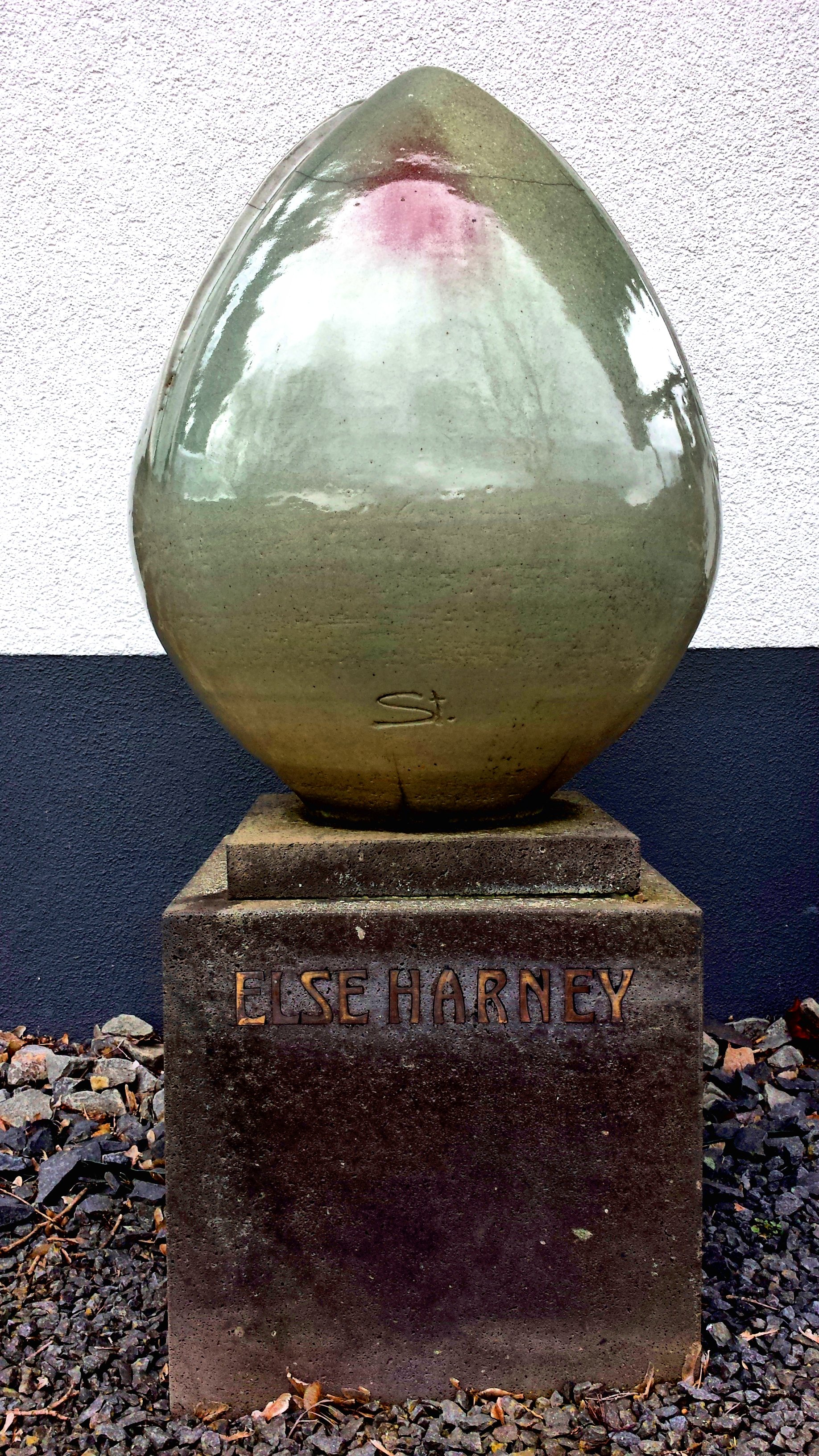 Ceramic bud from Wendelin Stahl for Else Harney's grave